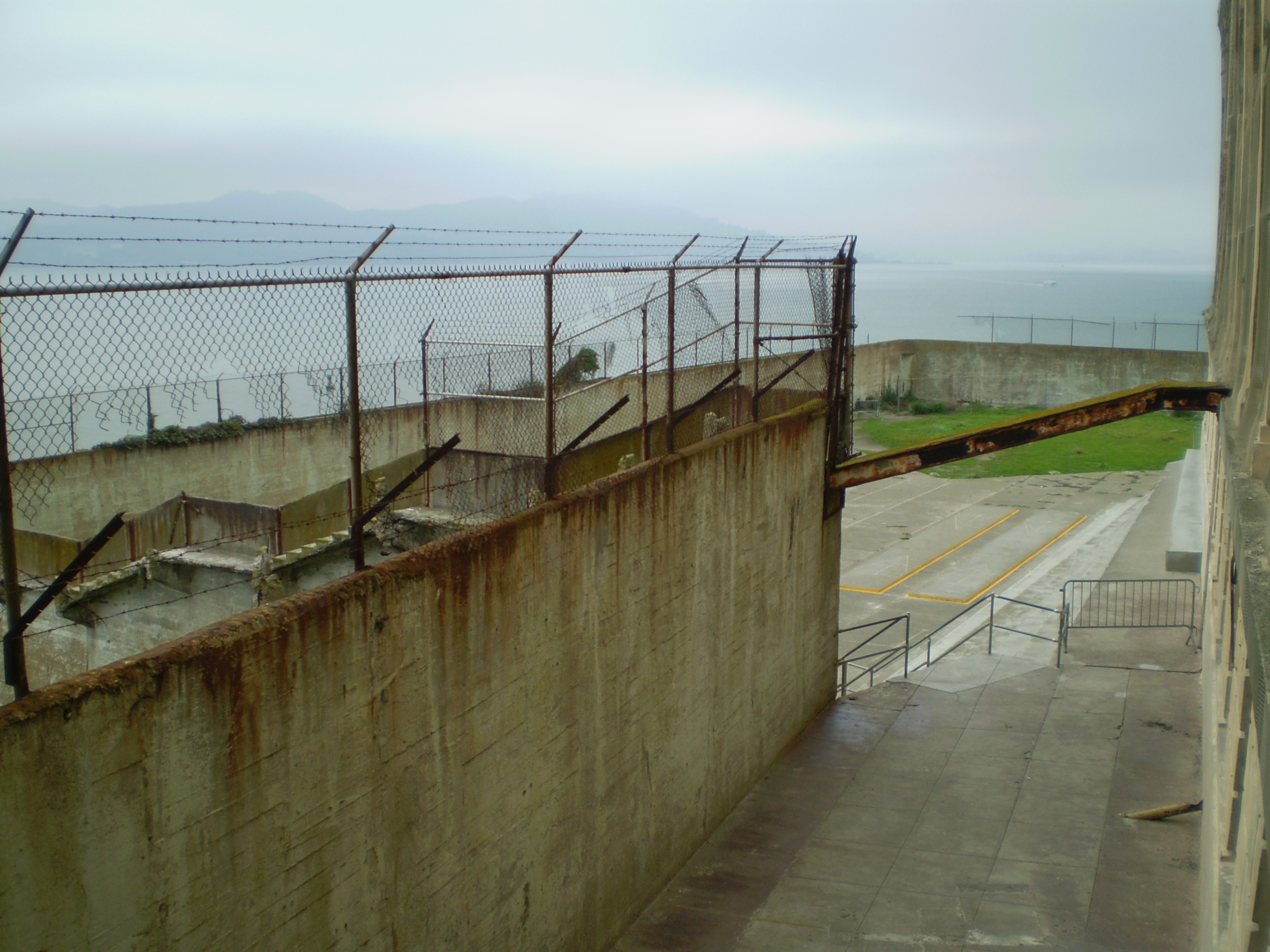 Inner barnyard on Alcatraz Island